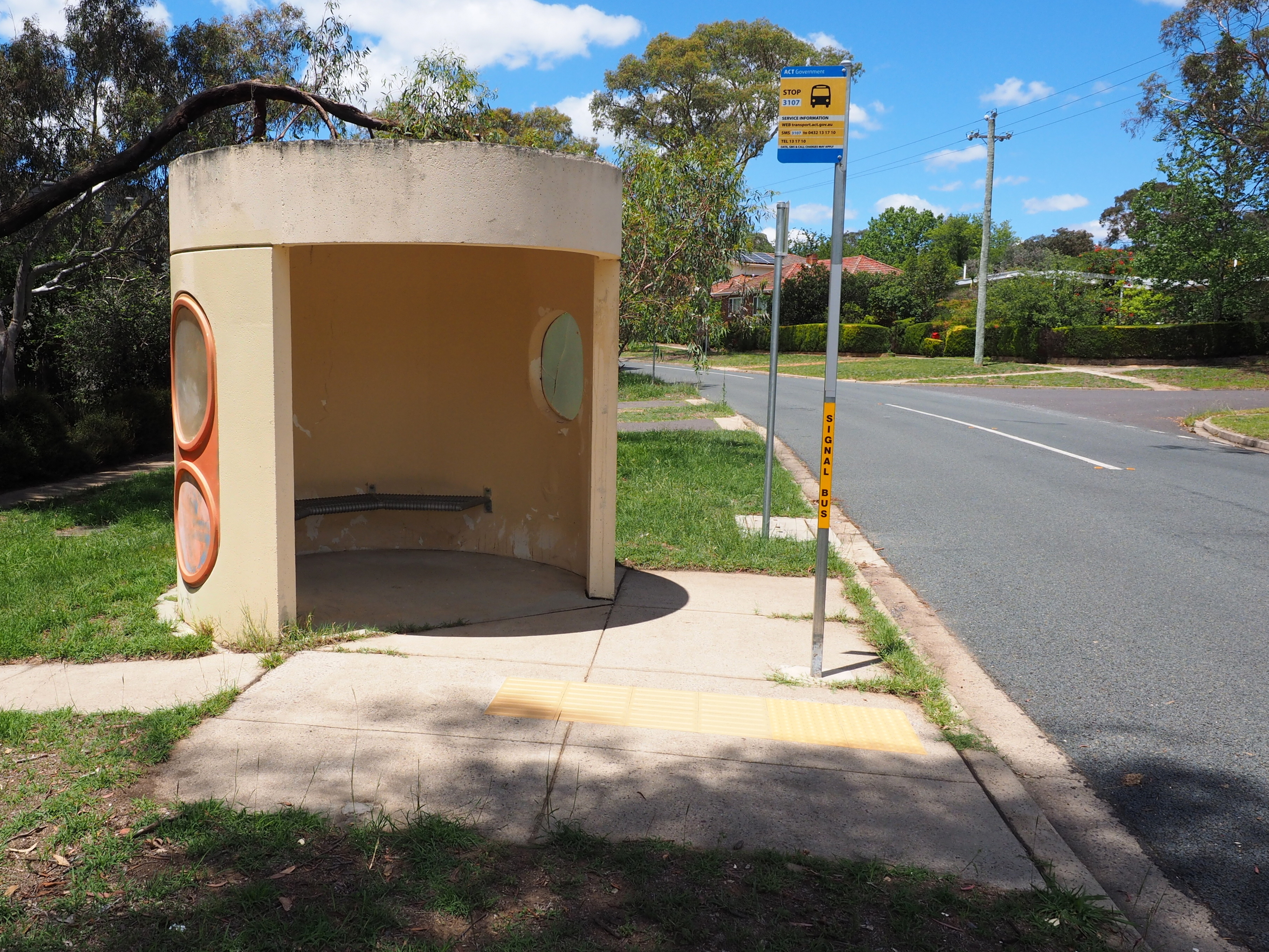 A concrete "bunker" style bus stop in O'Connor. Unusually, it still has both of its plastic windows.